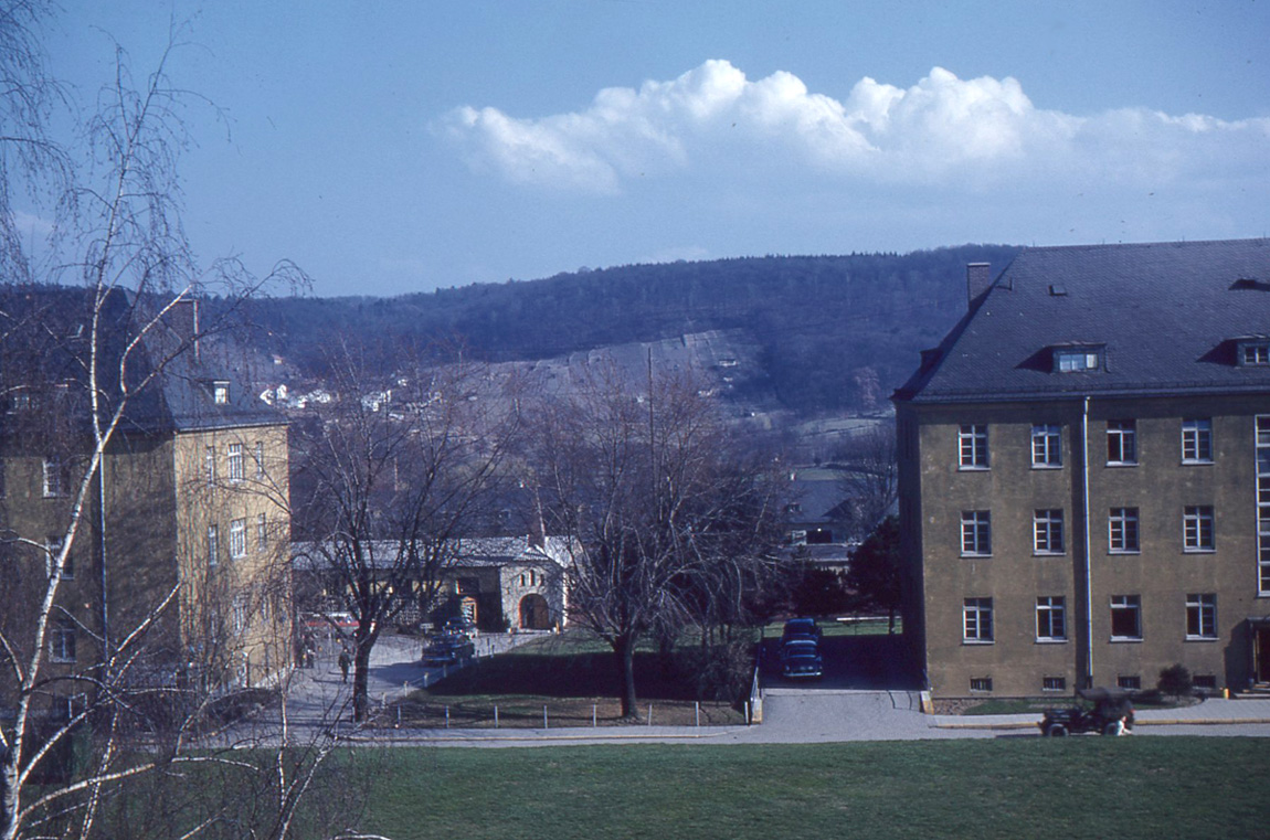 I was stationed in Badenerhof Kaserne, in the eastern part of Heilbronn. This is the view from my room. Another barracks is on the right, and the operations building where I worked is on the left. The motor pool is in the background. Badenerhof was built for the German army in the 1930s, as Ludendorff Kaserne. The U.S. Army moved into Badenerhof in the early 1950s. The Army left in the early 1990s, and turned it over to the city of Heilbronn. The buildings were torn down, and houses and apartments have been built on the site.